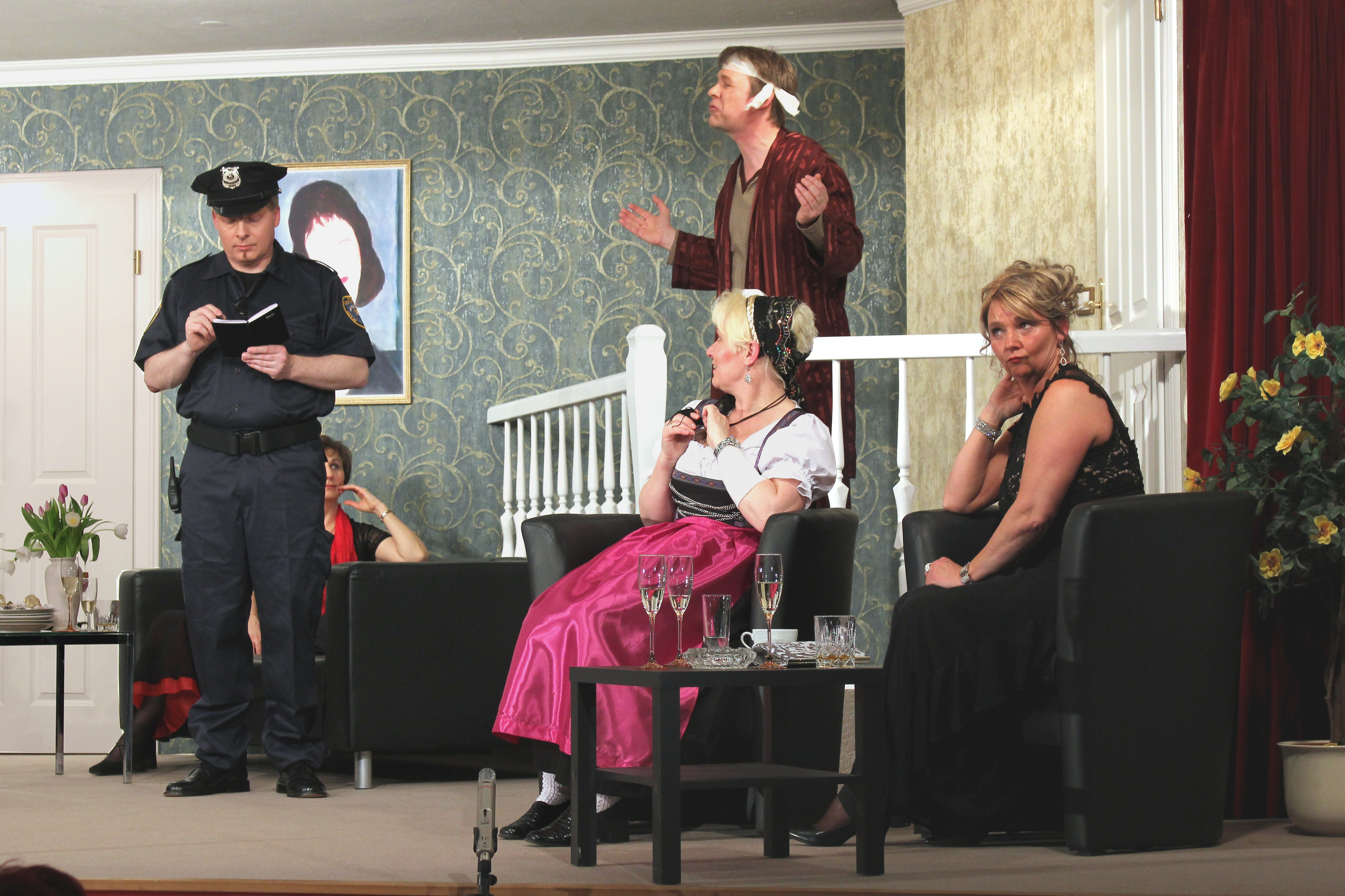 Scene from Rumors by Neil Simon; performance of the Kolping theatre group Kärlich, Mülheim-Kärlich. Whether the officer believes the story?